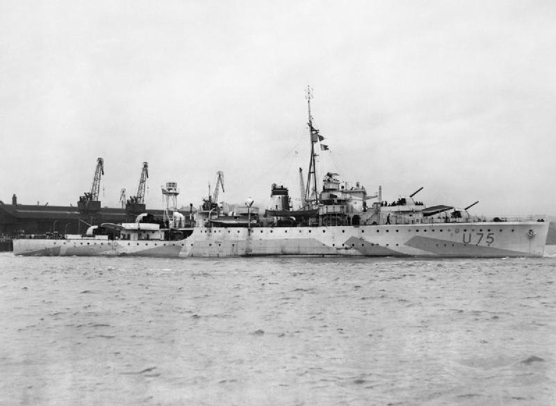 Photograph of British sloop HMS Egret.